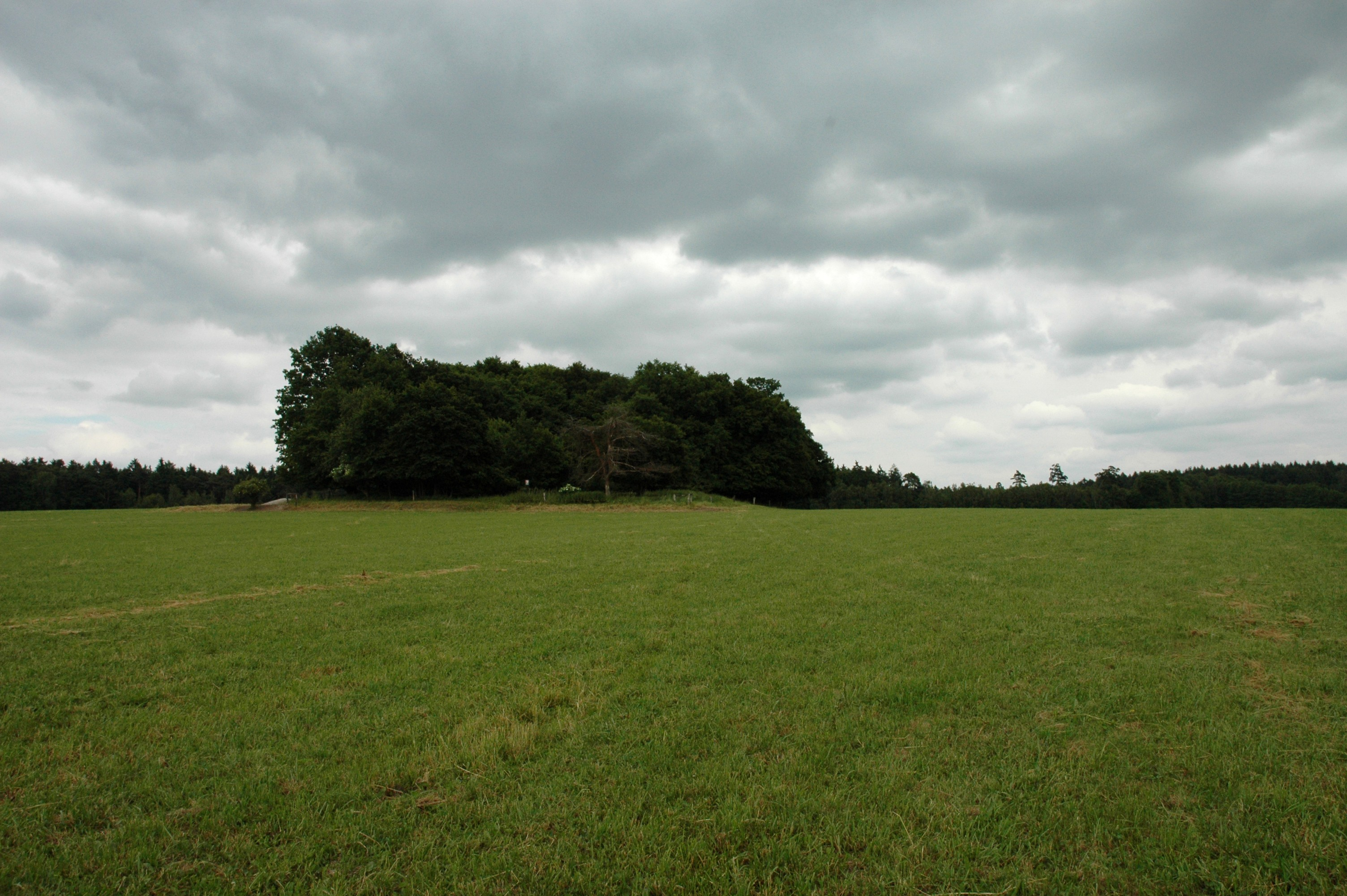 Natural monument Skalka u Sovolusk in Pardubice District, Czech Republic